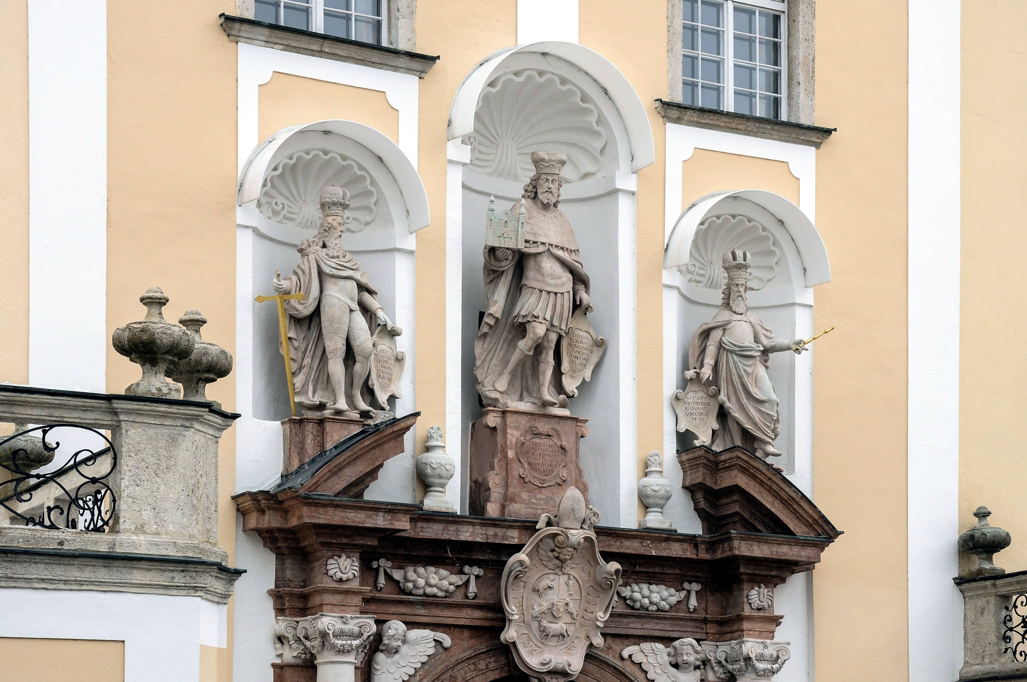 Above the portal to the inner court of Kremsmunster Abbey there are the statues of Tassilo III, Duke of Bavaria, Charlemagne and Henry II, Holy Roman Emperor.